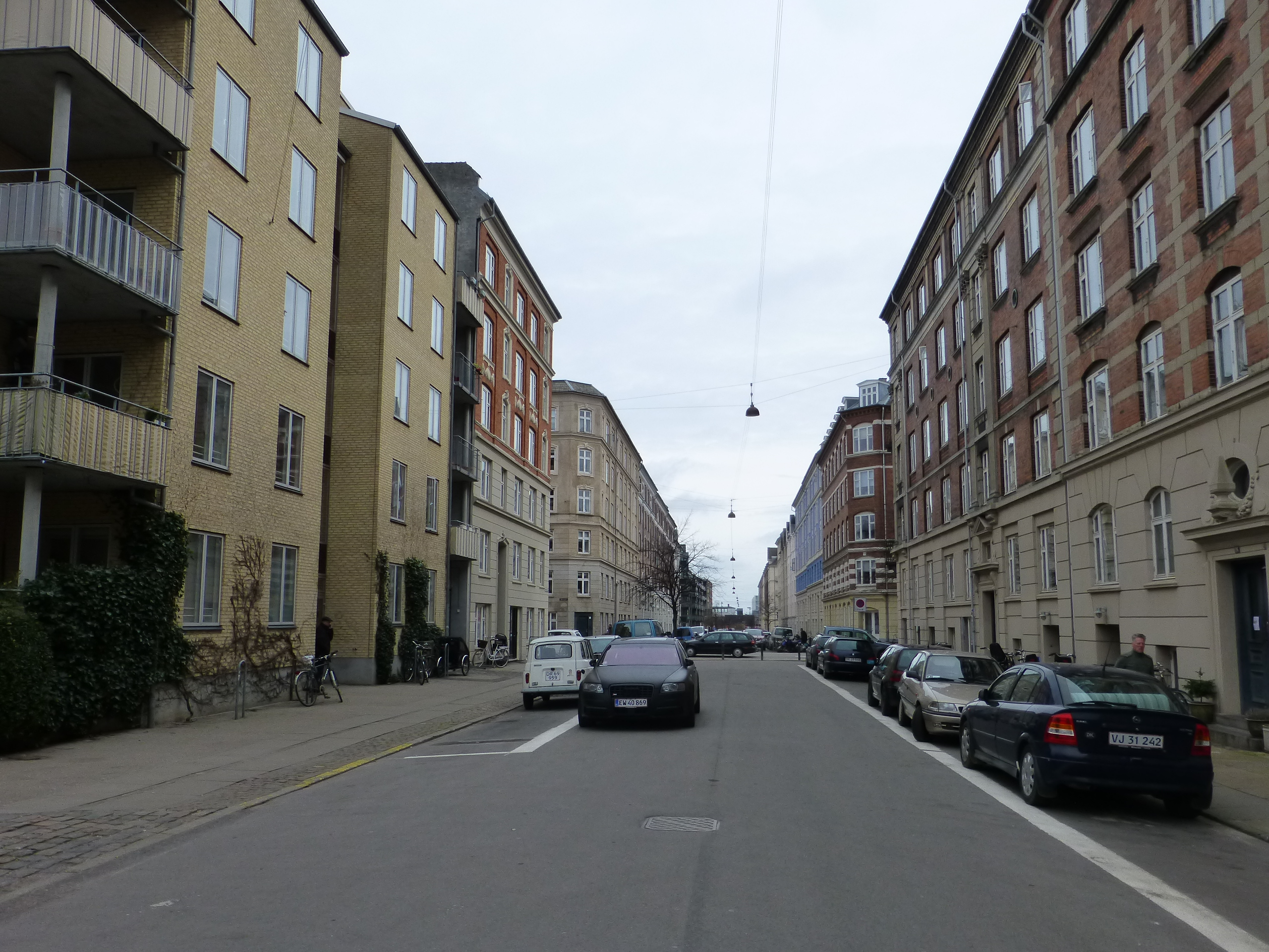 The street Gammel Kalkbrænderi Vej in Østerbro in Copenhagen.